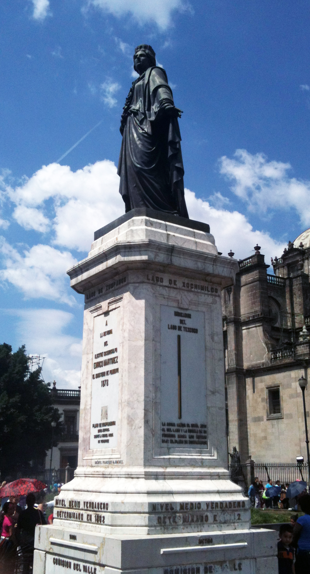 The Monumento Hipsográfico is located next to the Metropolitan Cathedral in Mexico City. It pays homage to Enrico Martinez.